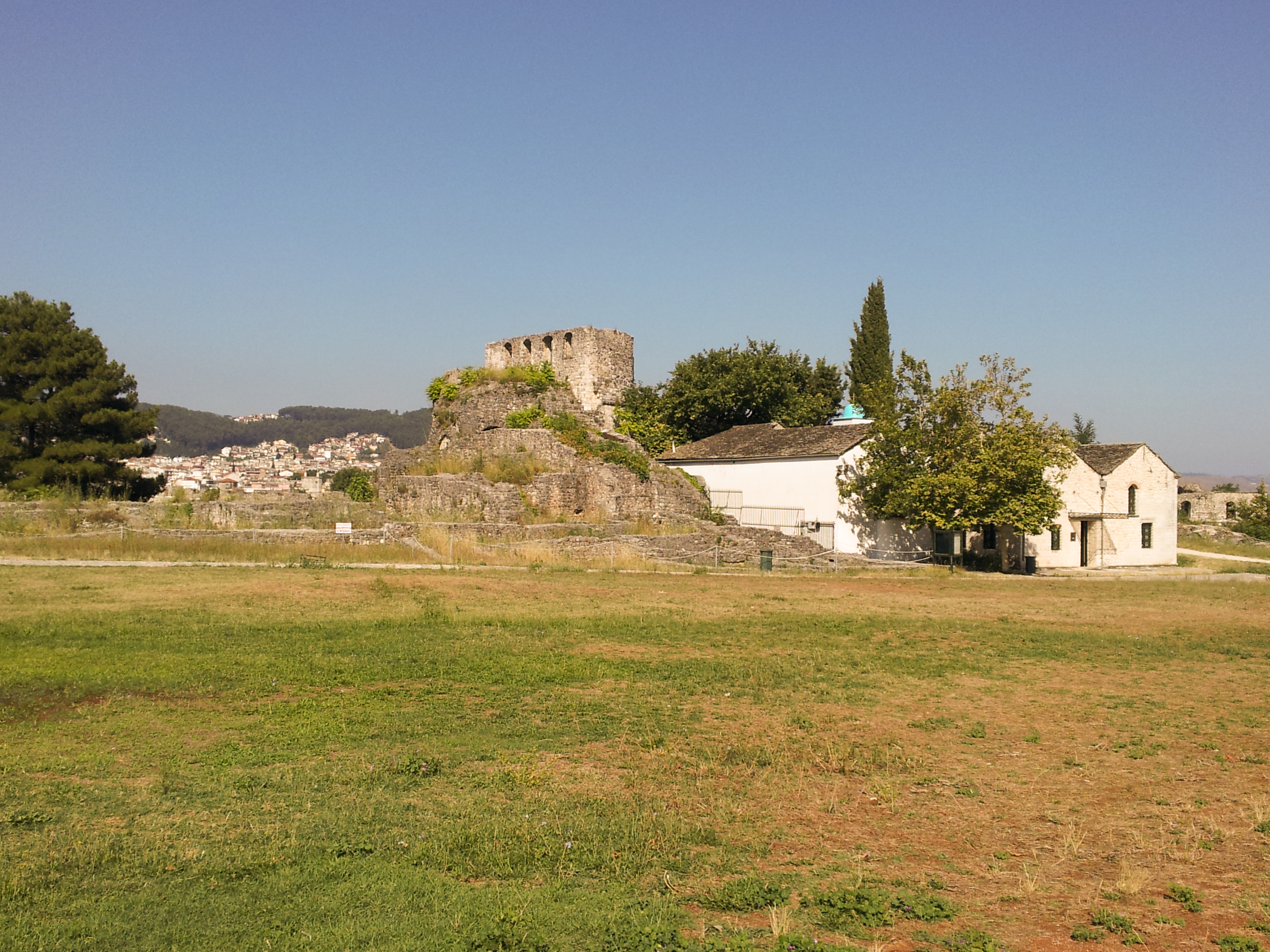 Ruins of Ali Pasha's palace and Treasury, seen from the Byzantine Museum